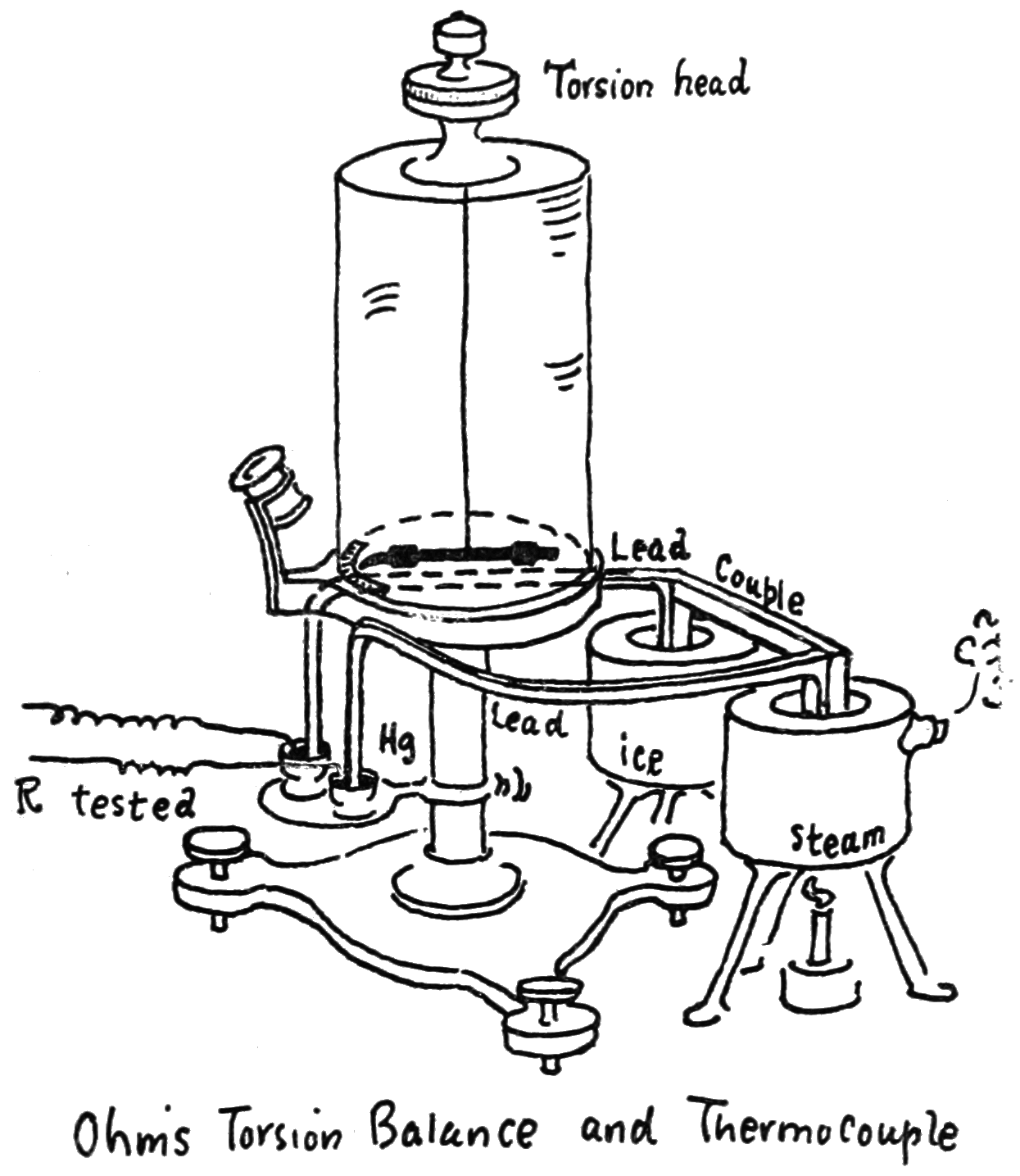 Ohm torsion balance and thermocouple